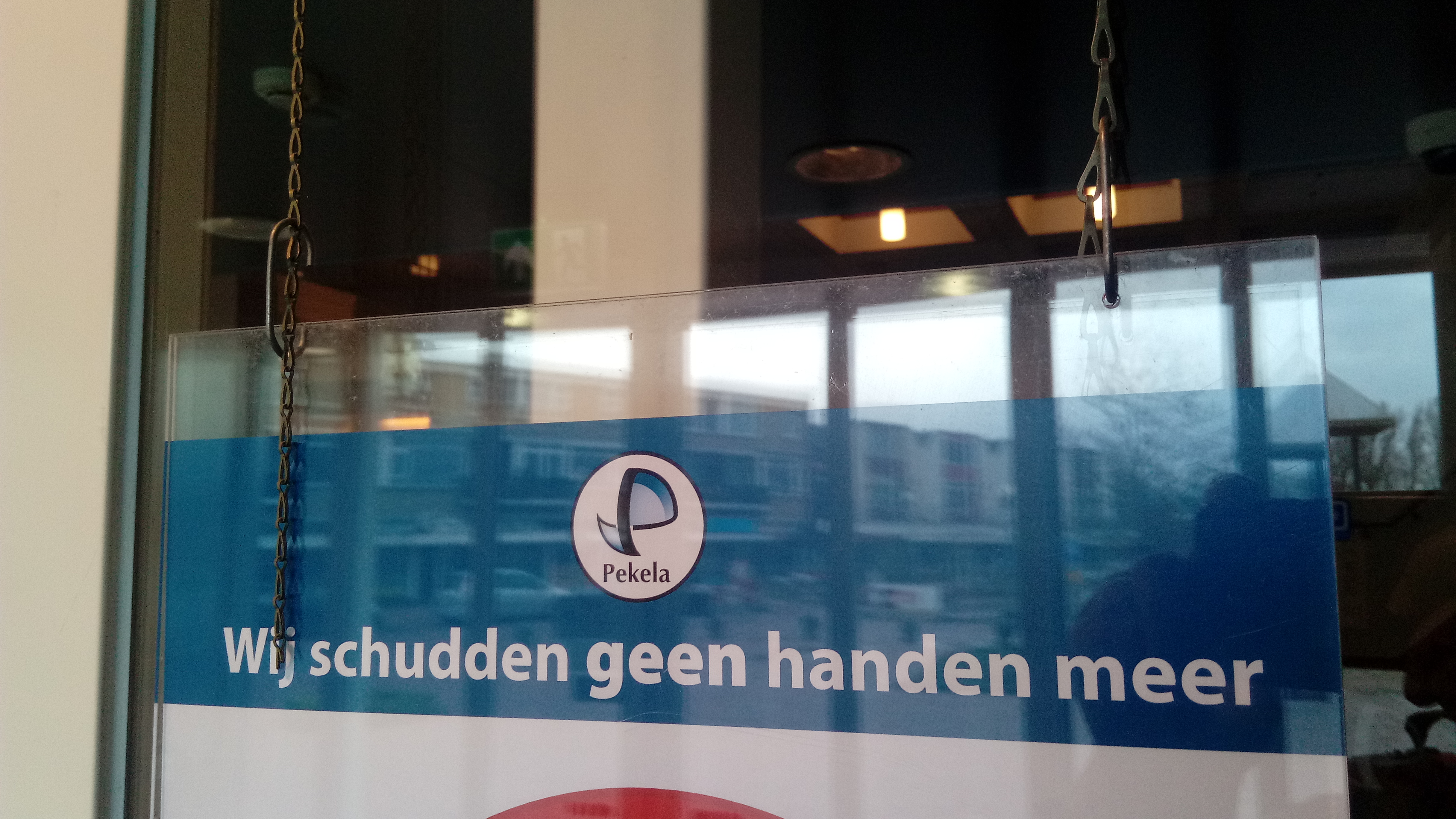 A notice indicating that the employees of the municipality of Pekela won't shake hands anymore, in the Groninger village of Oude Pekela, Veenkoloniën.